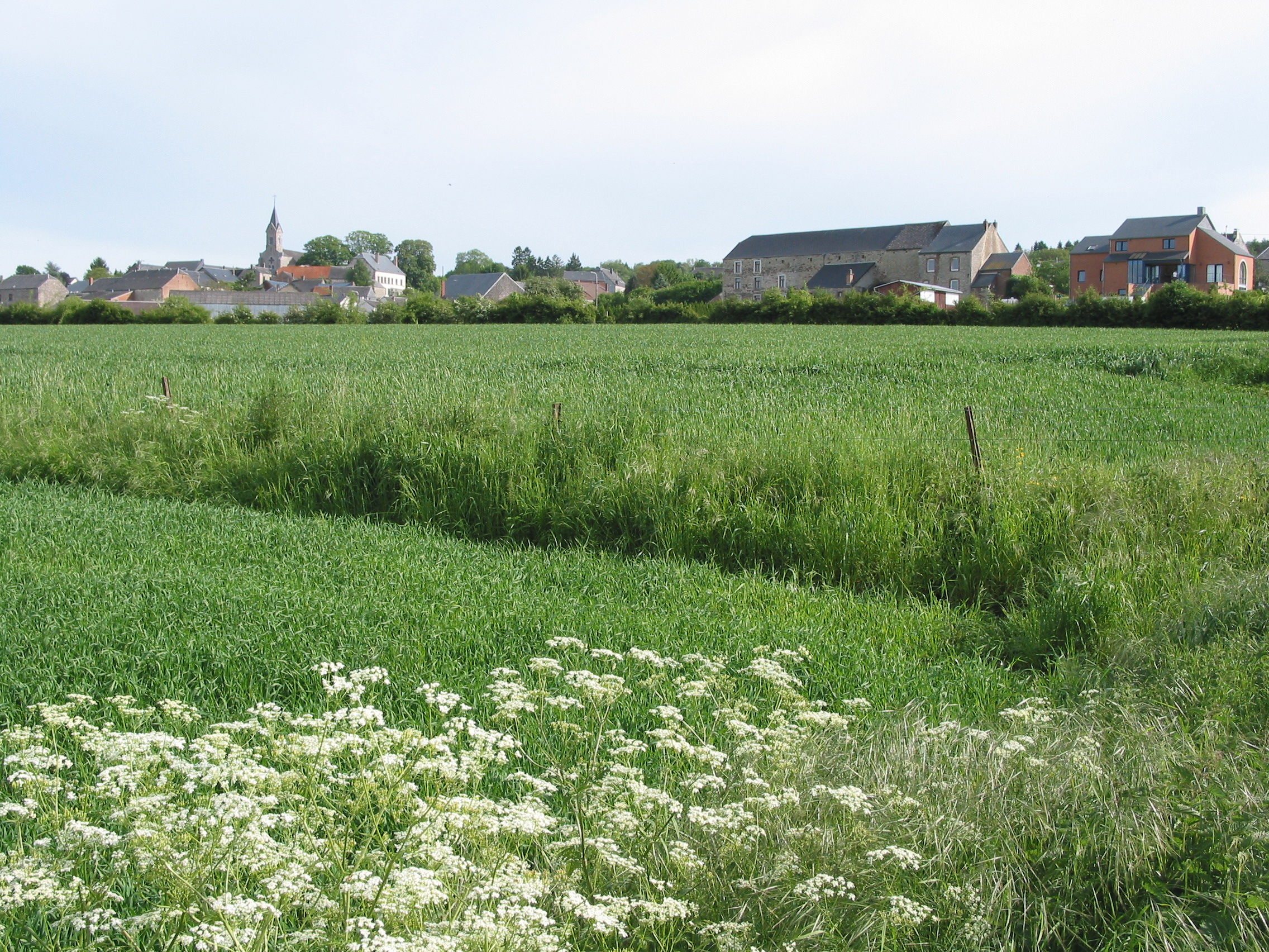 Honnay (Belgium), the village in the springtime.